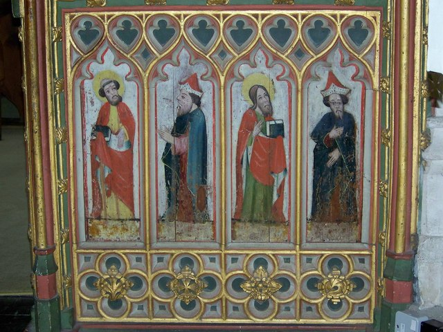 Rood Screen, Church of St Peter, St Paul and St Thomas of Canterbury Panel on rood screen.